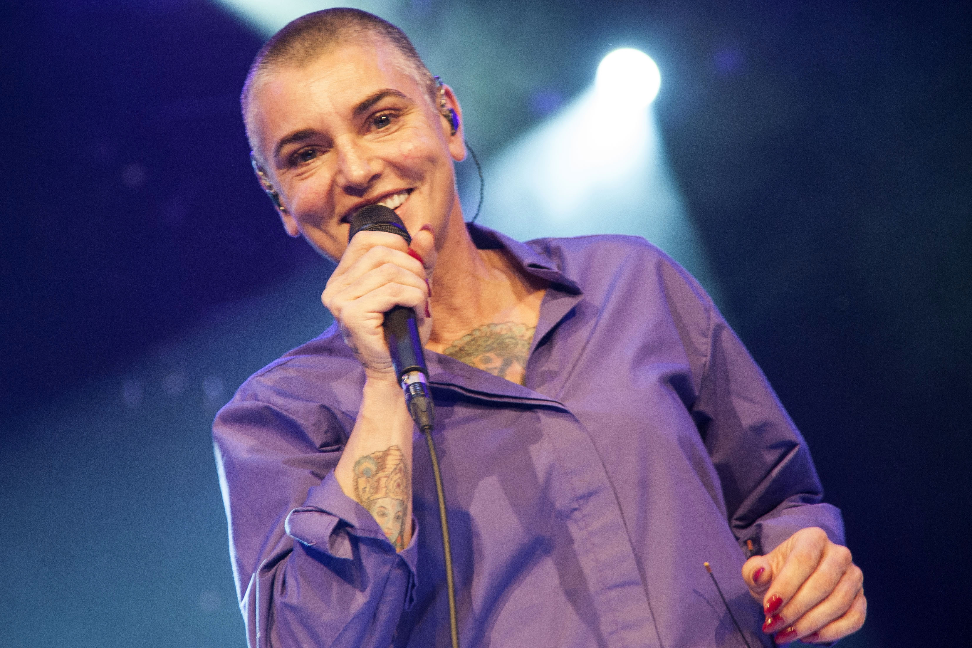 Cambridge Folk Festival 50th Anniversary